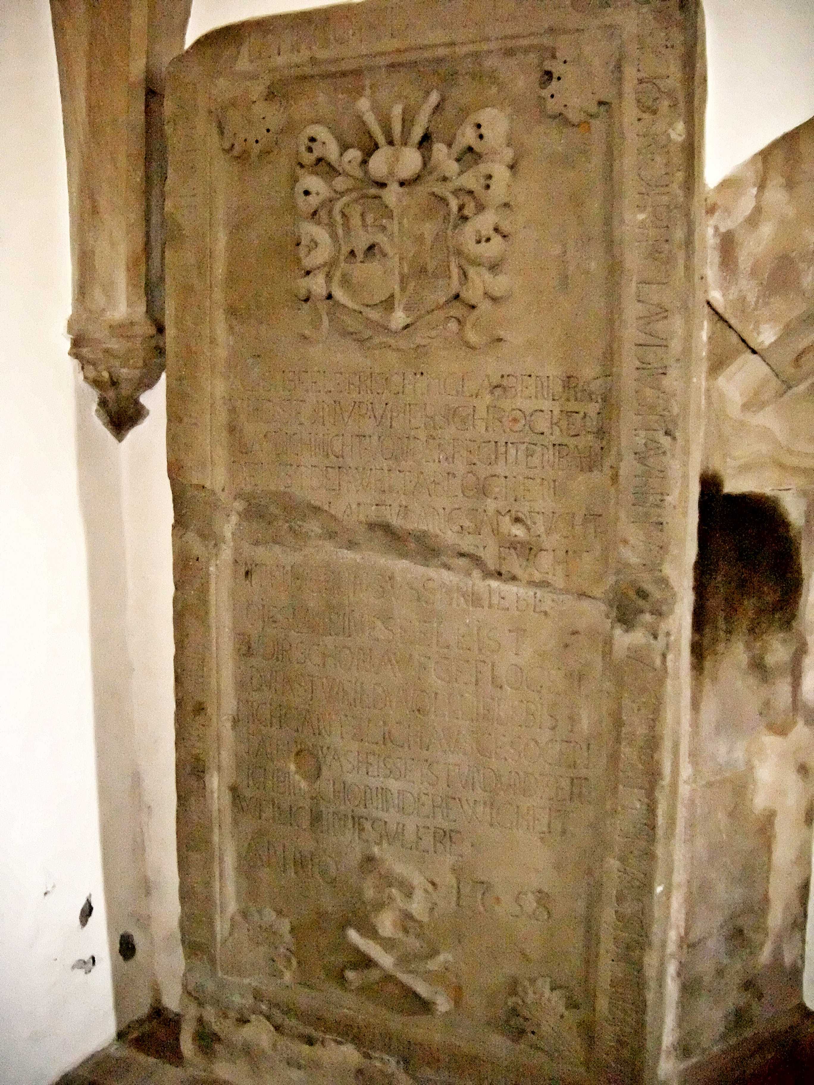 Morschheim Prot. Kirche Epitaph Claudius Mauritius von Gagern